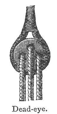 Illustration from 1908 Chambers's Twentieth Century Dictionary. Dead-eye, n. (naut.), a round, flattish wooden block with a rope or iron band passing round it, and pierced with three holes for a lanyard.